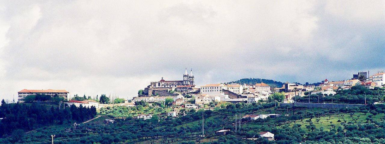 View of Portalegre, Portugal